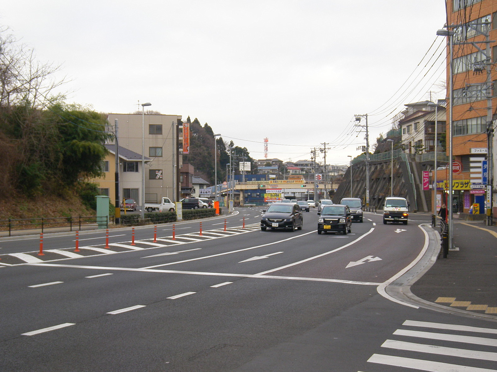 Miyagi Prefectural Road 22, Sendai-Izumi Line. Aoba ward, Sendai, Miyagi prefecture, Japan. Northward from the border between Kitane and Dainohara. Old Ōshū Road.